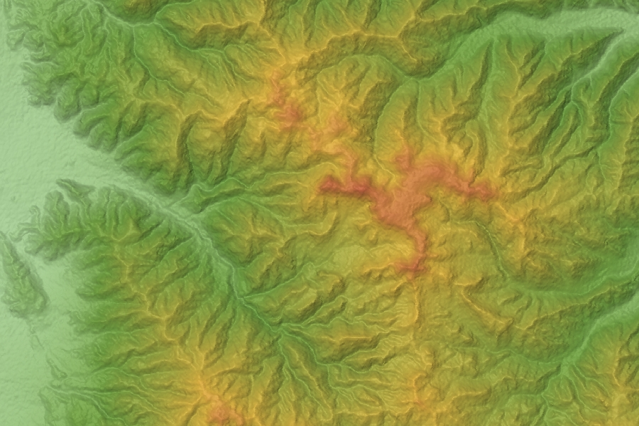 Utsukushigahara Volcano in Nagano Prefecture, Honshu, Japan.